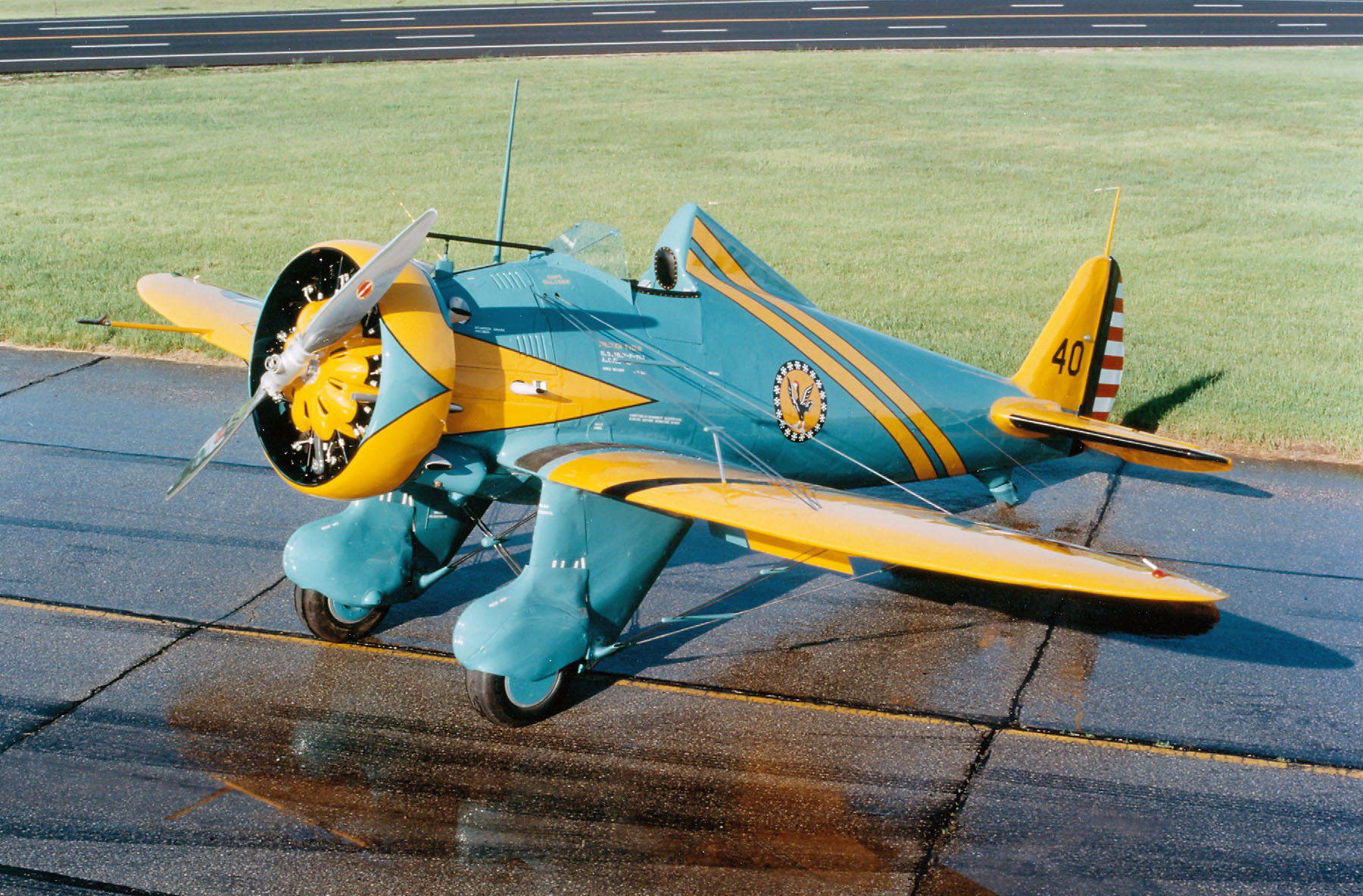 Boeing P-26A at the National Museum of the United States Air Force